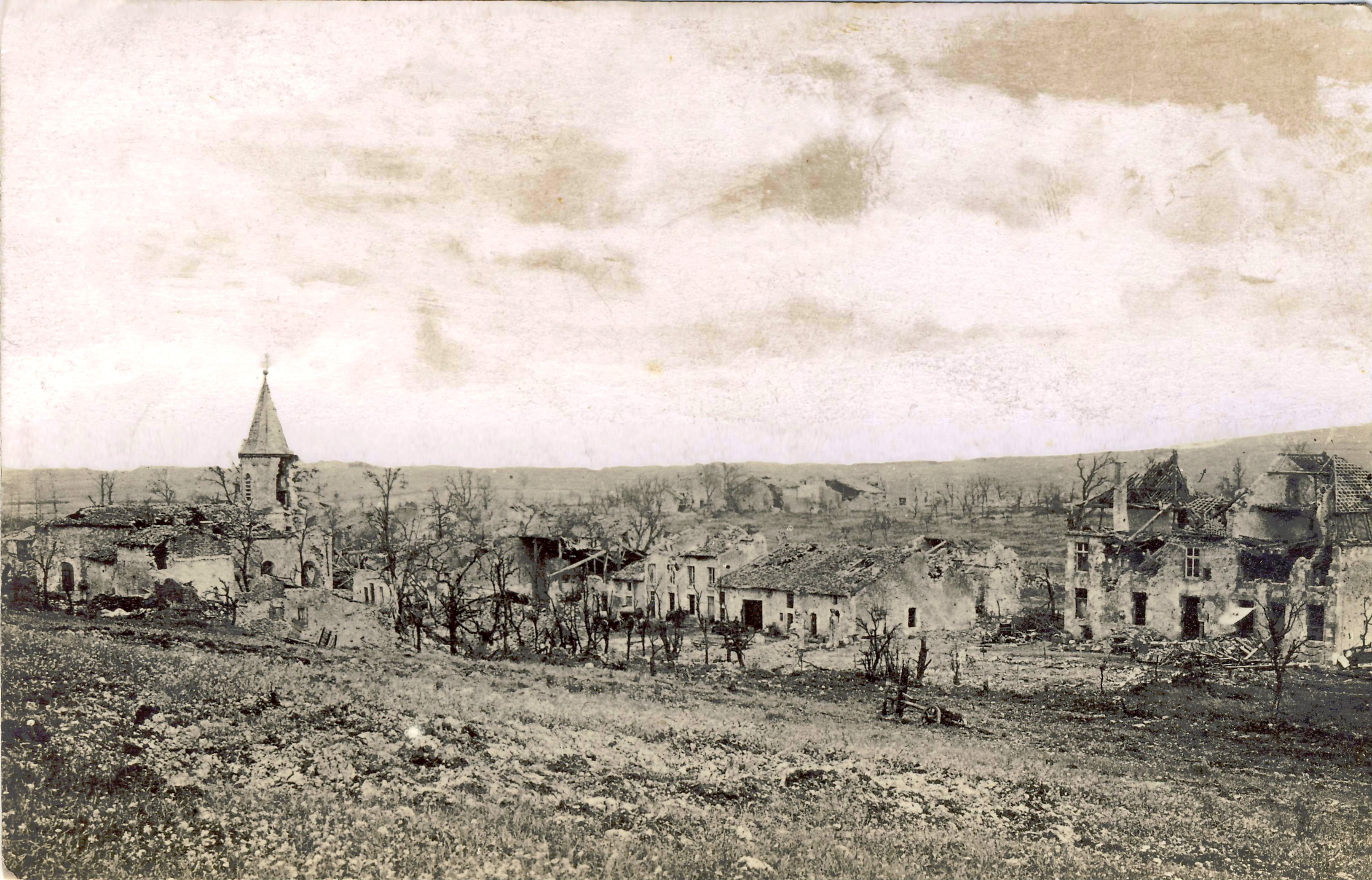 Photographed during the World War I in Bezonvaux.